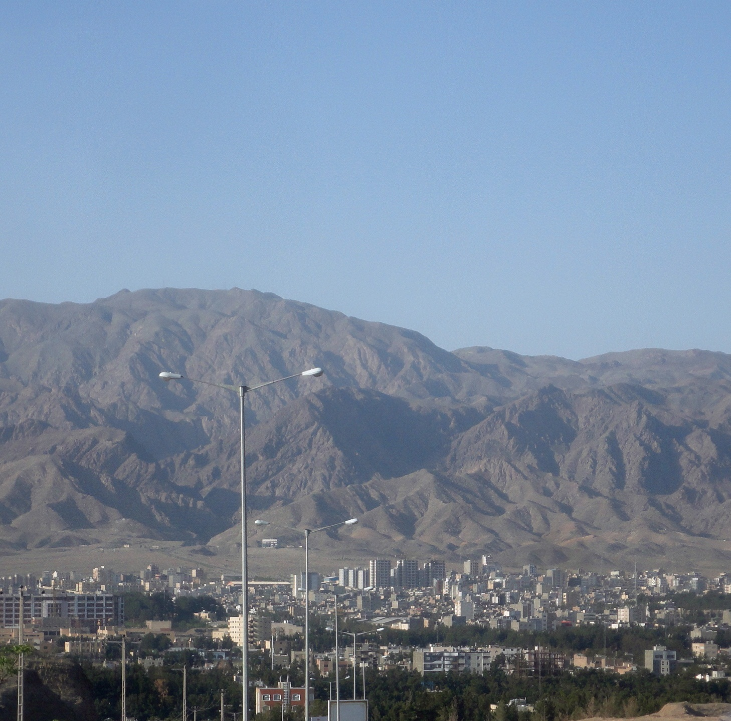 Birjand View